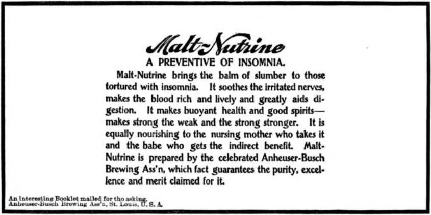 Anheuser-Busch's "Malt-Nutrine" tonic advertisement from 1898.